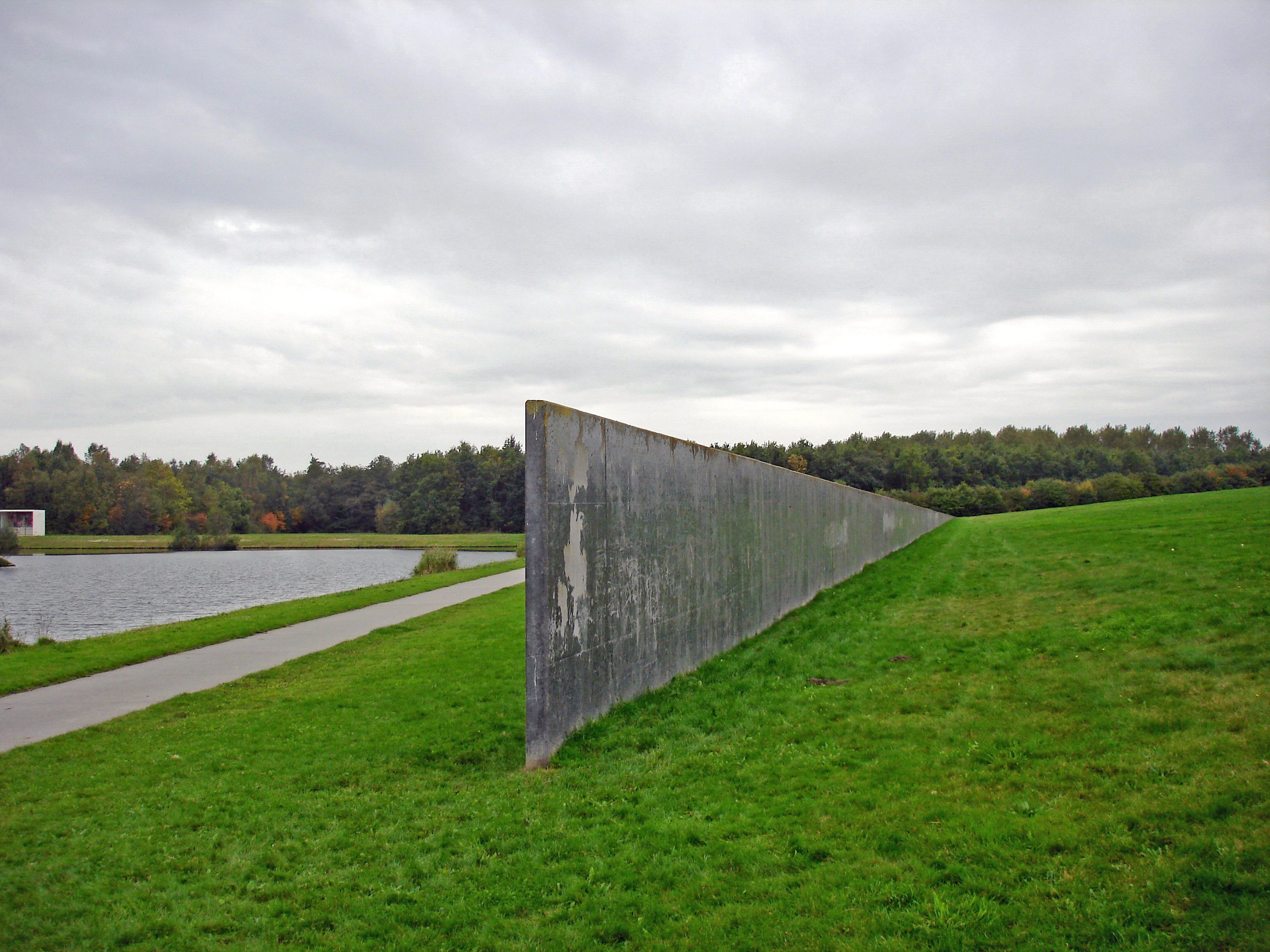 Sealevel (South-West part) by Richard Serra (1939 ~ ) exhibited in Zeewolde, the Netherlands. Photo by Michaël de Vos. Note This image of the structure falls under the Freedom of panorama for the The Netherlands